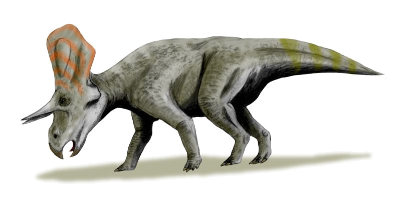 Zuniceratops with transparent background